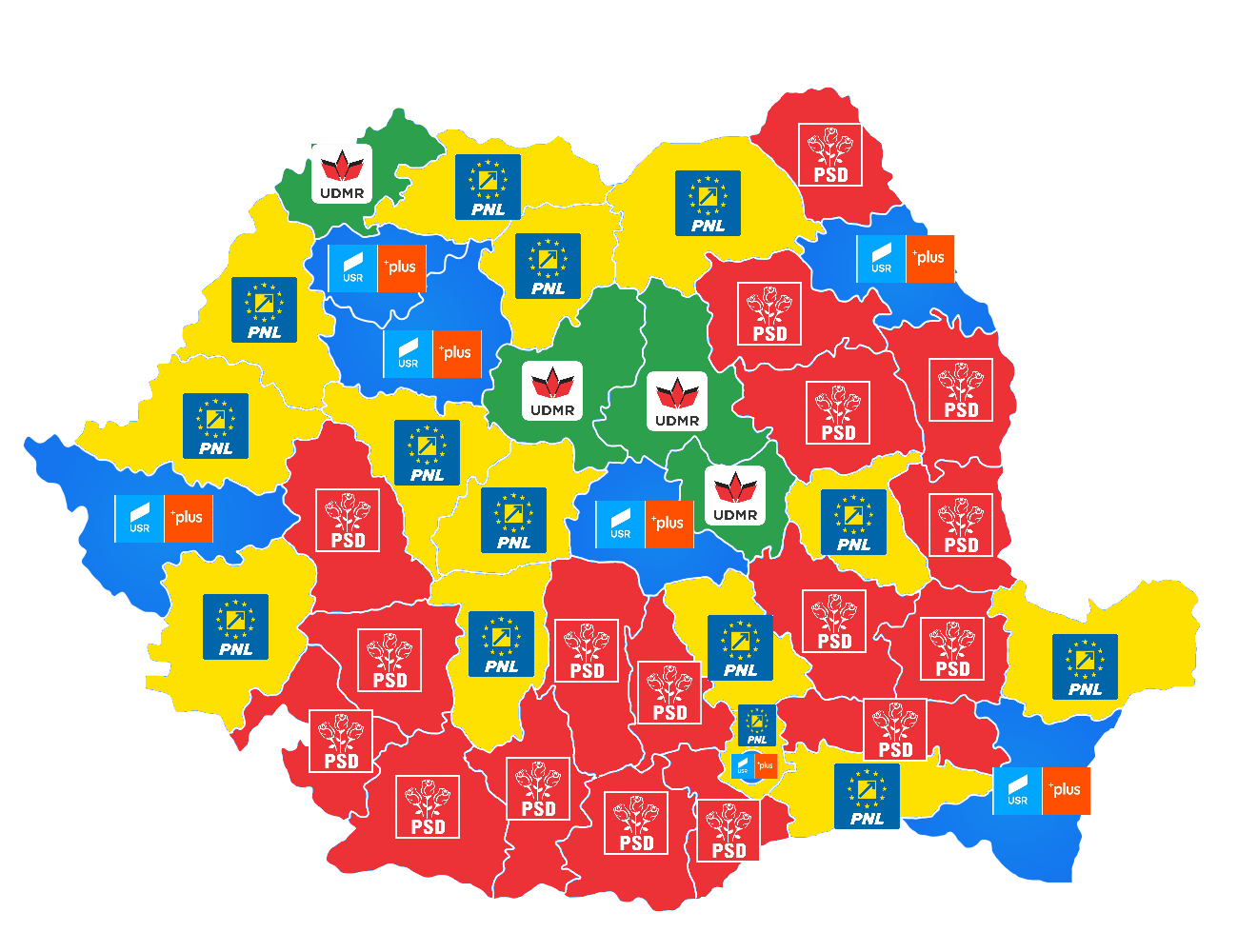 Map of the romanian european elections 2019 based on the winning party in each county